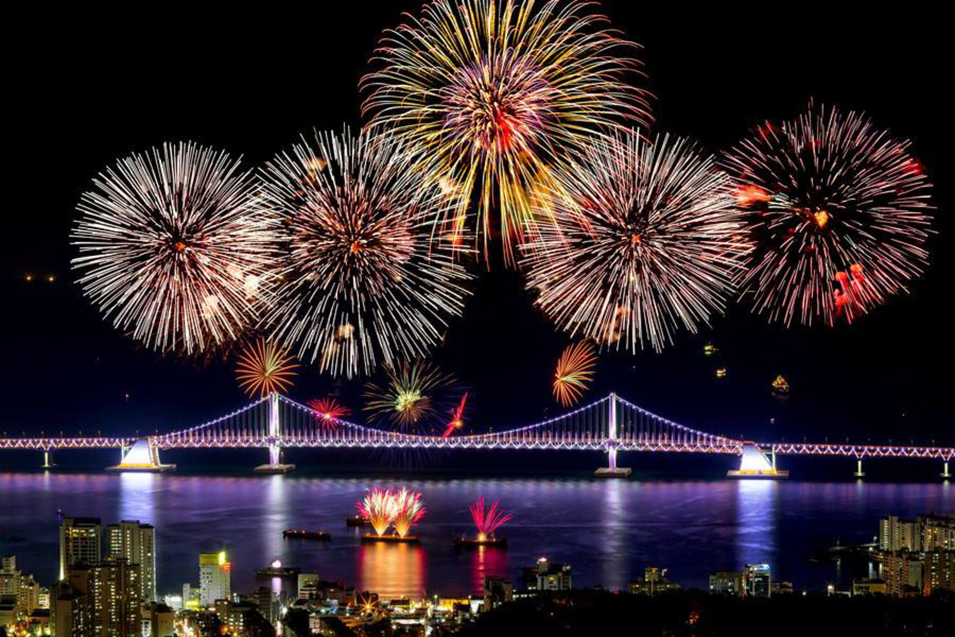 Korean New Year